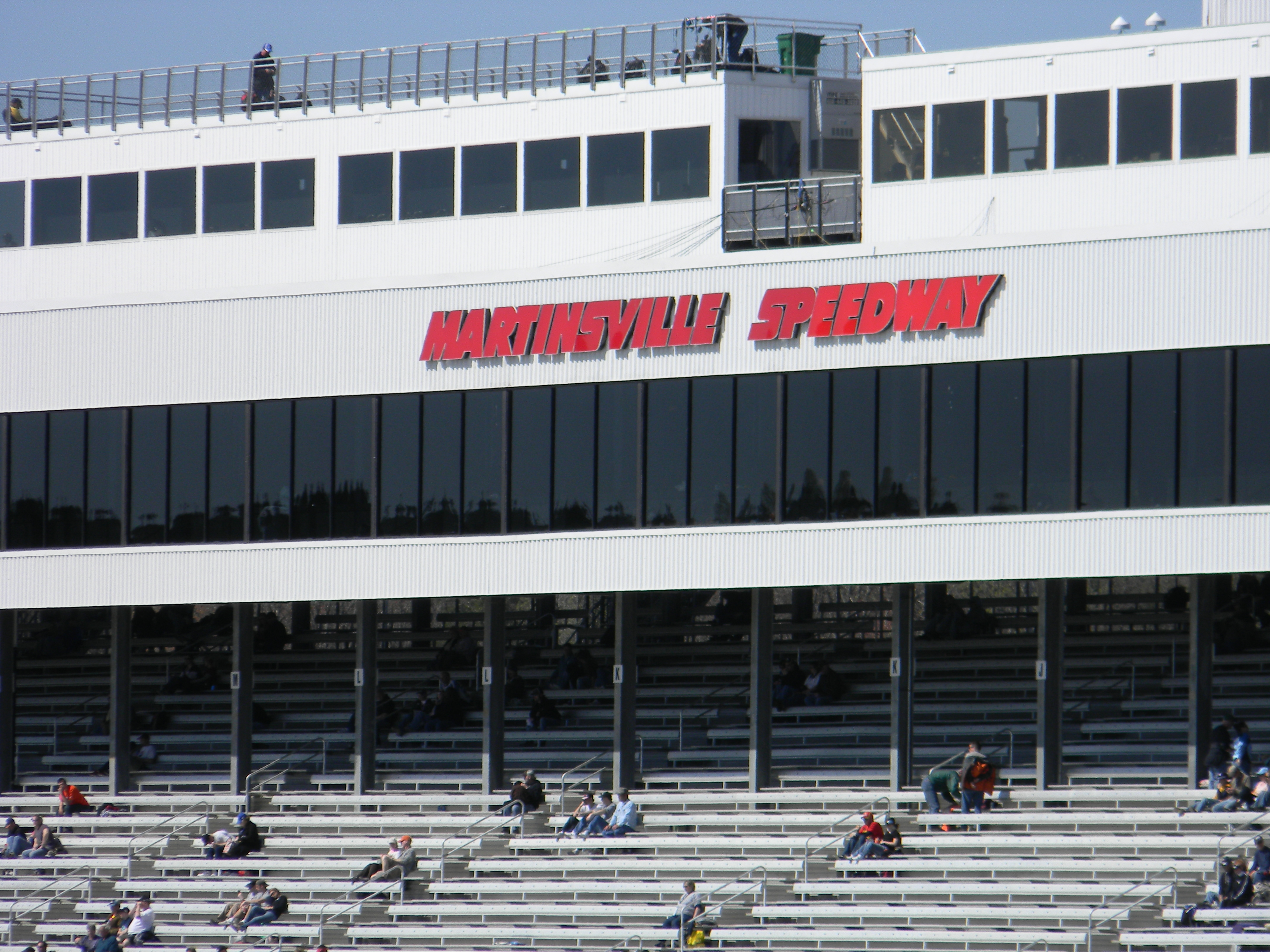 The tower at Martinsville Speedway.